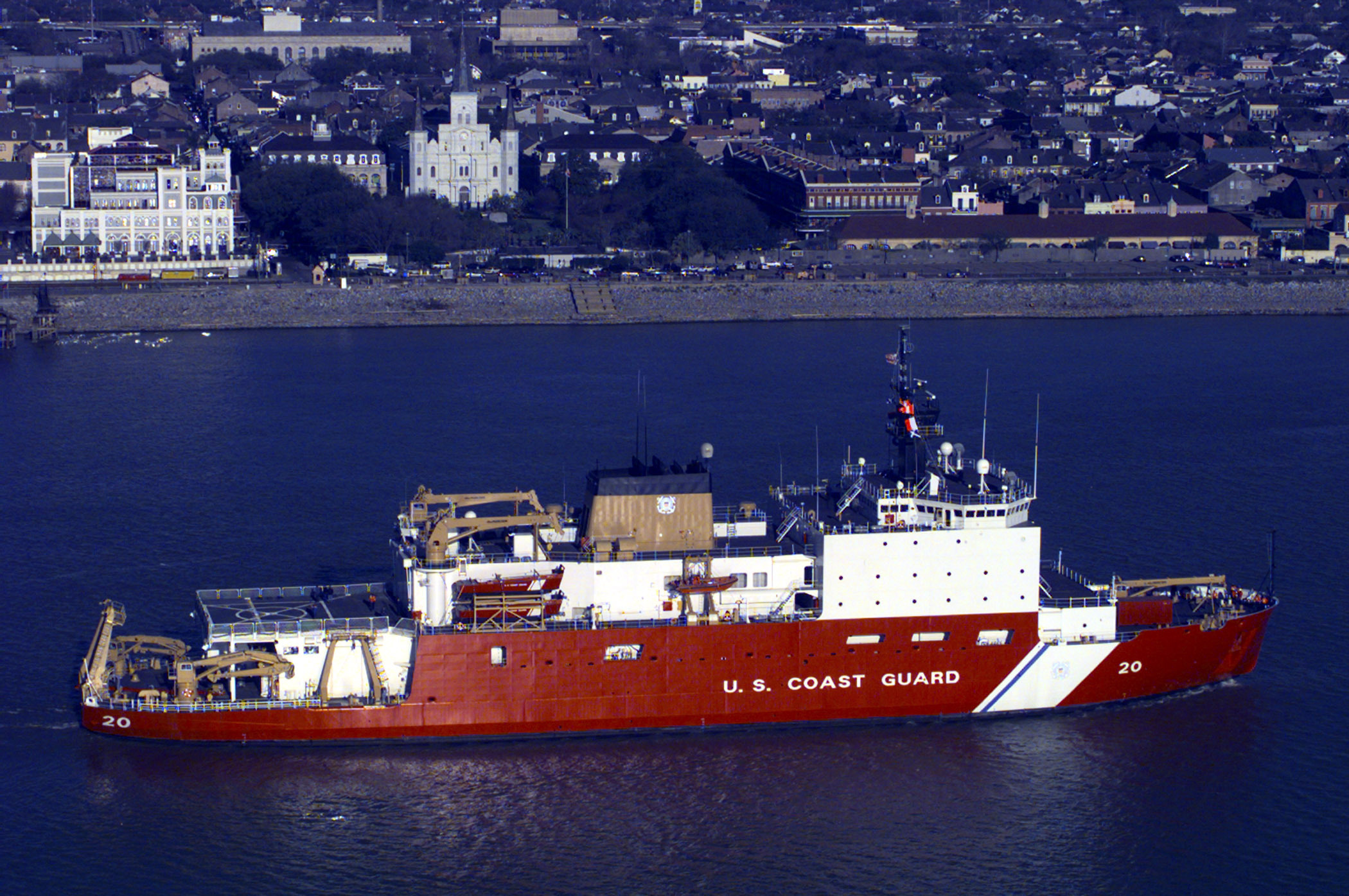 USCGC Healy on the Mississippi River. Original caption: “New Orleans, LA (Jan. 26)--Coast Guard Cutter Healy (WAGB 20) sails down the Mississippi River and past downtown New Orleans on its way to sea trials and its new homeport of Seattle, Wash. USCG photo by PA2 Mark Mackowiak”